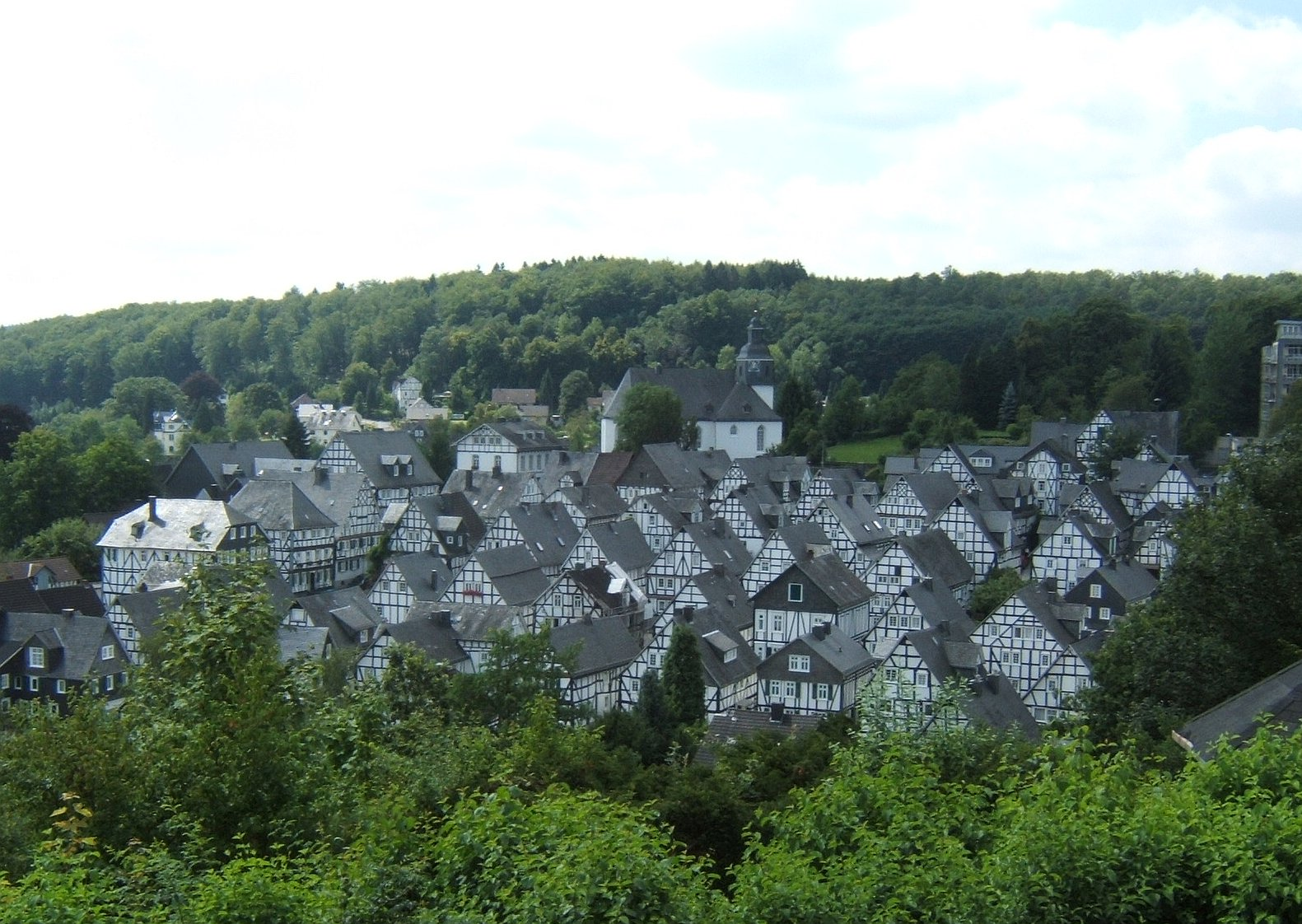 Historical center of Freudenberg, Westphalia (Alter Flecken)